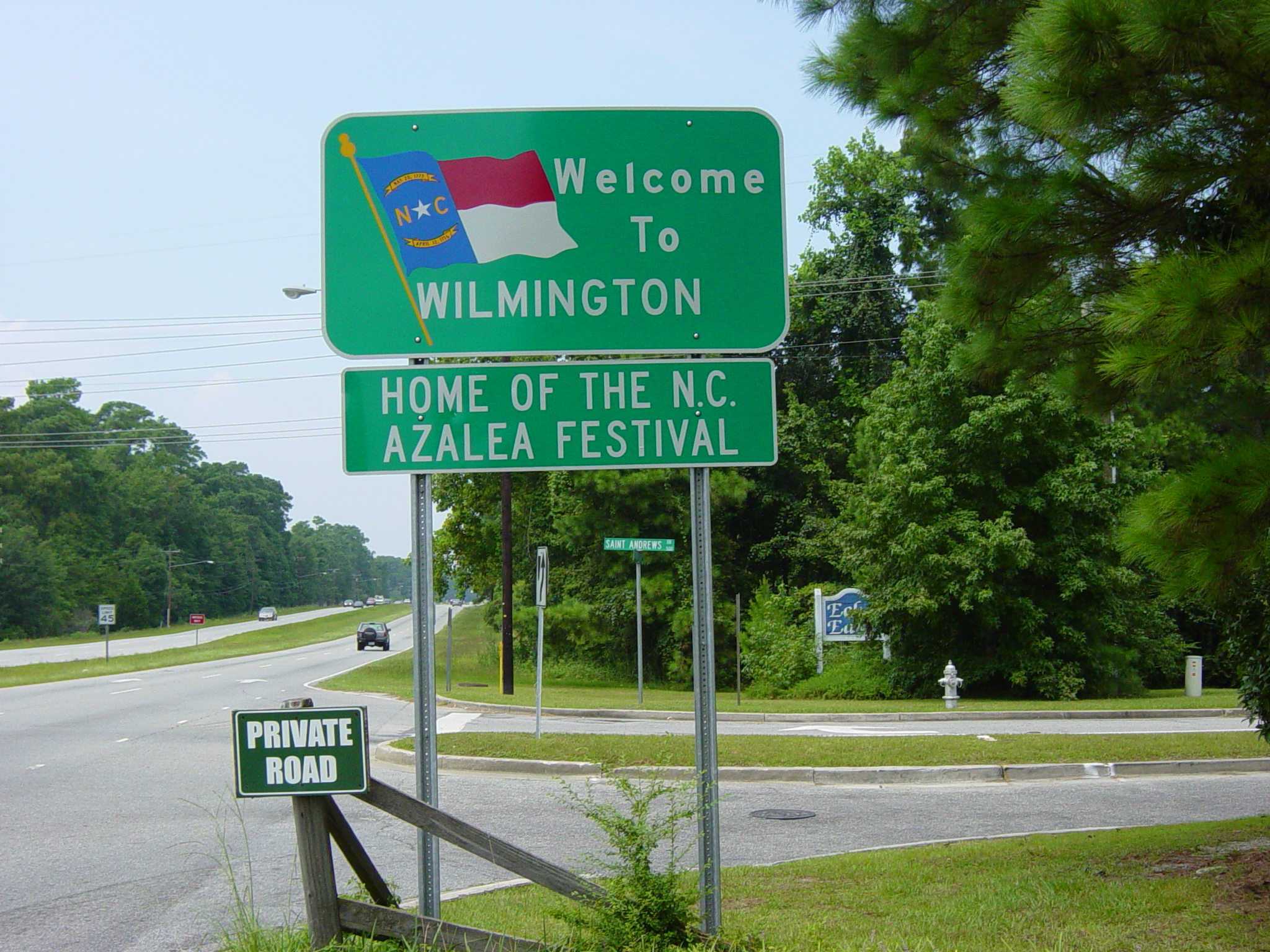 The sign that greets all visitors to Wilmington.